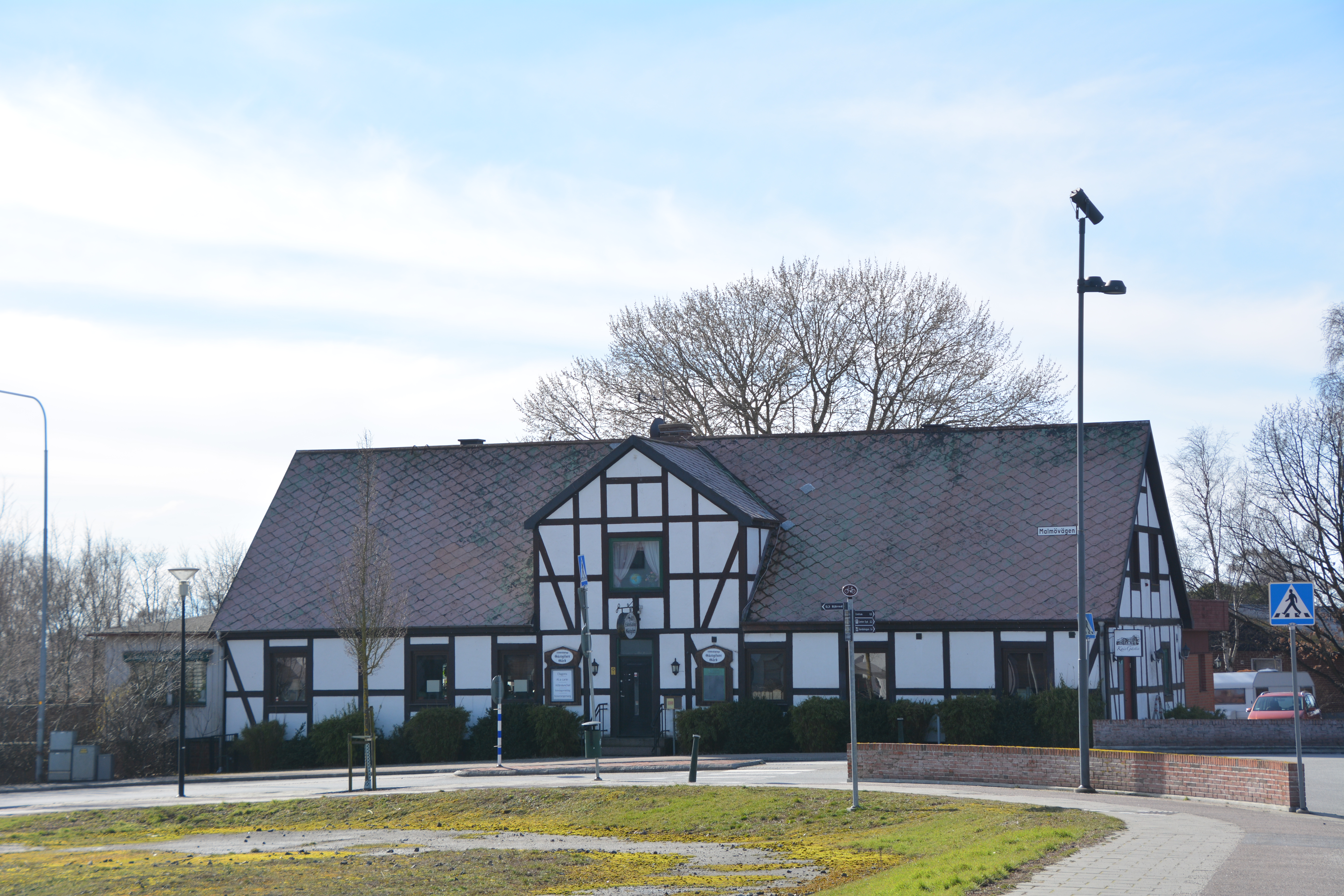 Löddeköpinge Gästis